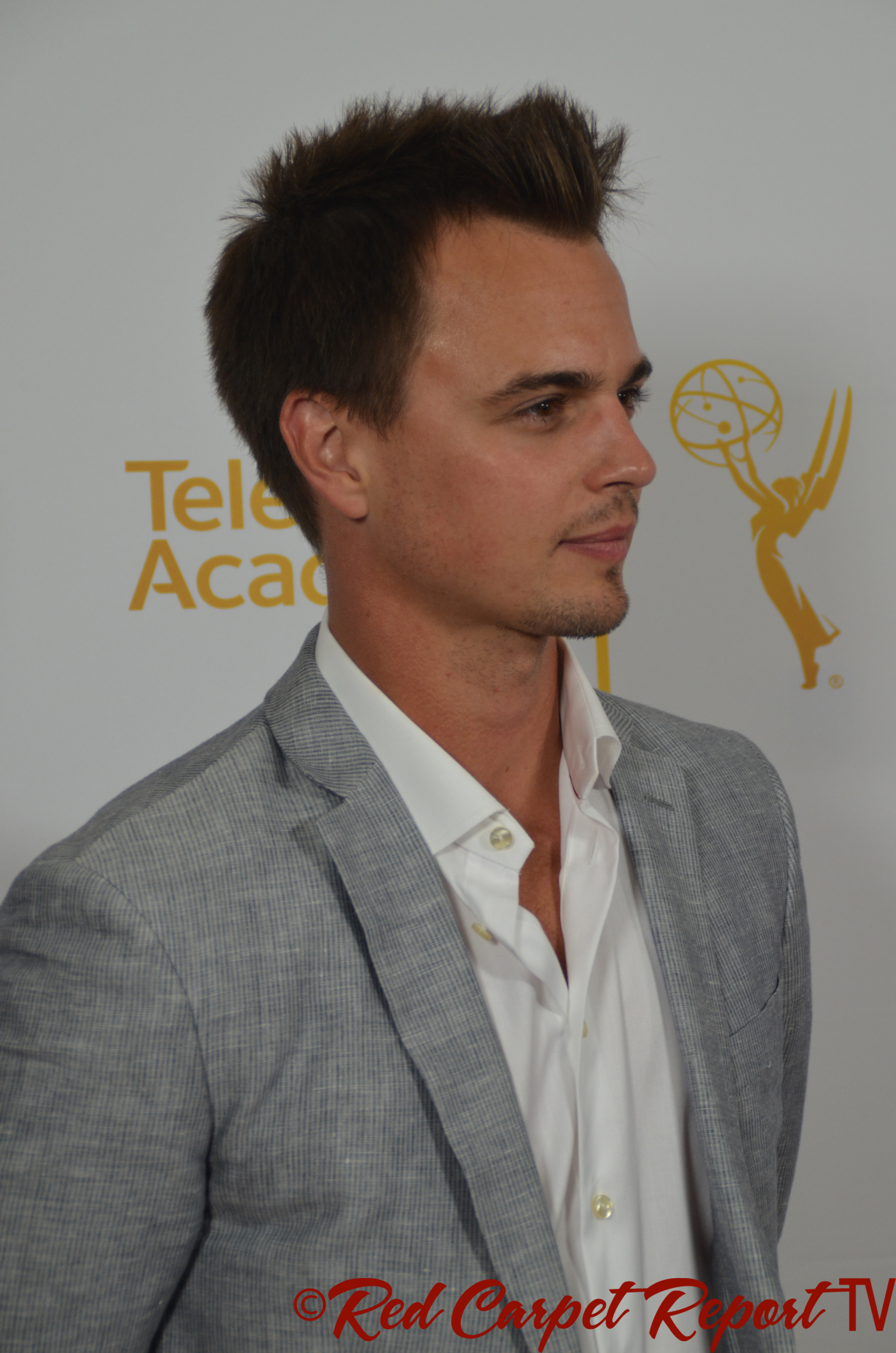 Actor Darin Brooks at the 2014 Daytime Emmy® Awards Nominees Cocktail Reception